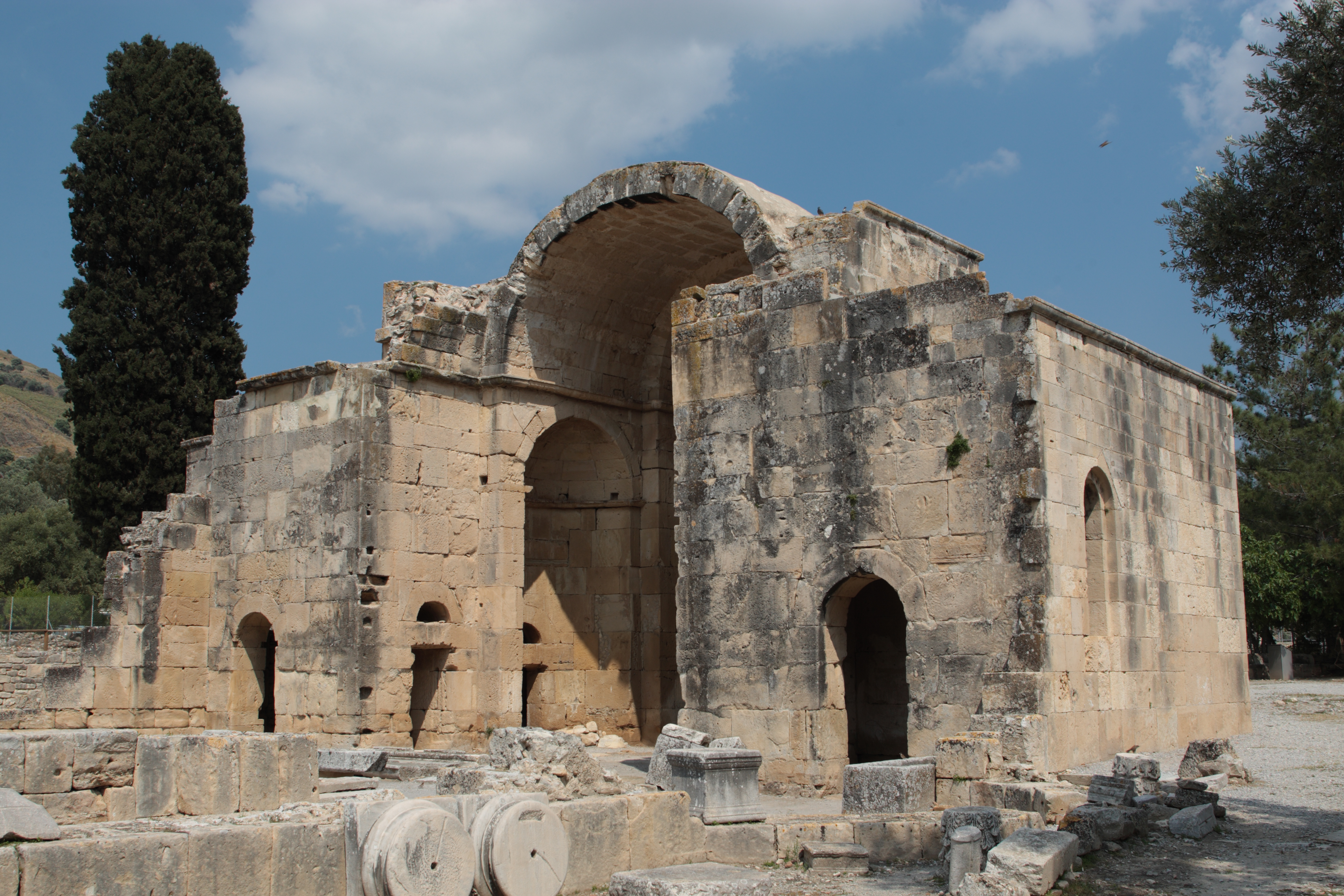 The basilica of Agios Titos, Gortyn, Crete